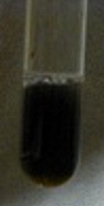 Chromium(VI) peroxide formed in situ by reaction stated in article